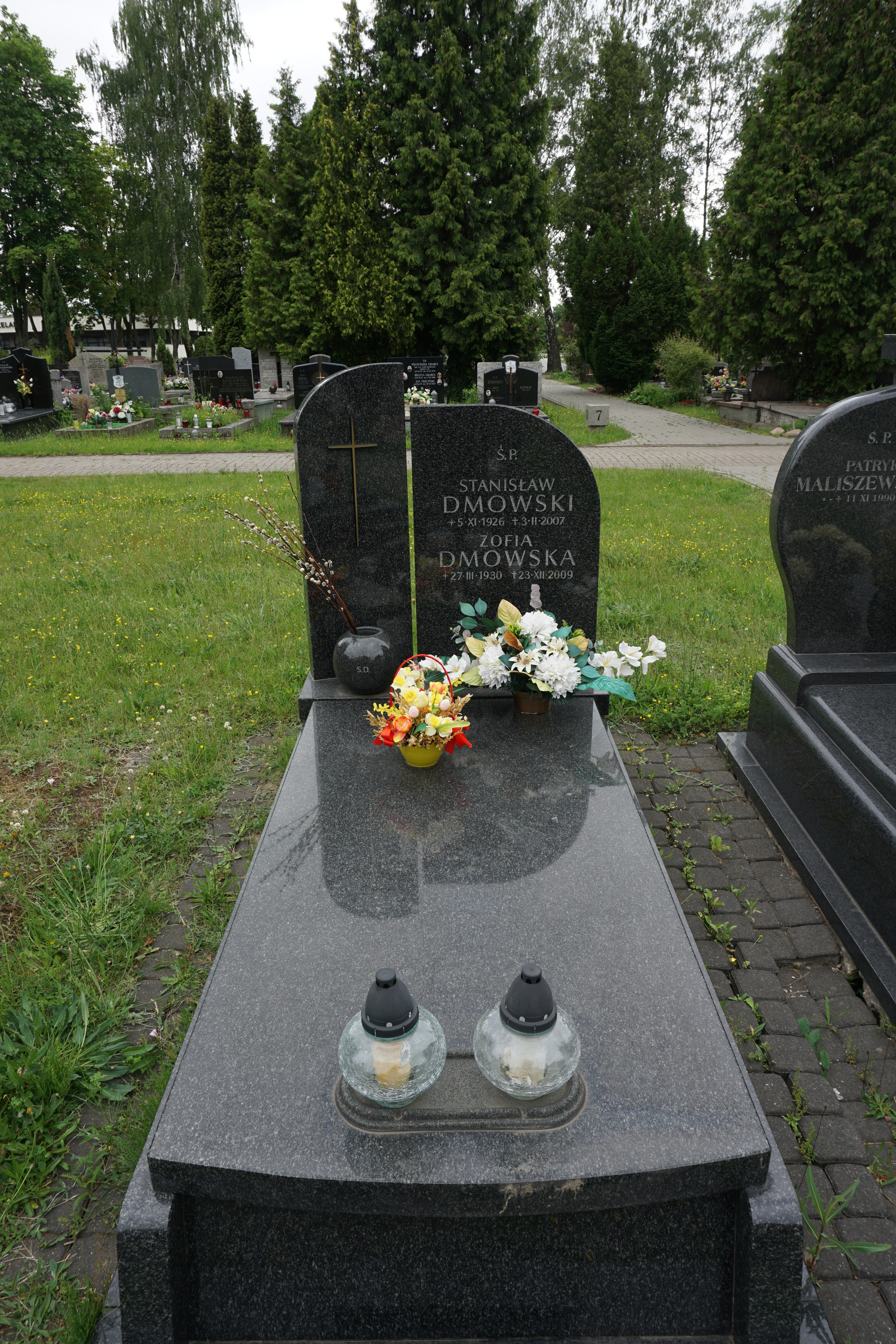 The grave of Stanisław Dmowski at the North Municipal Cemetery in Warsaw (section E-IV-7, row 9, grave 2)